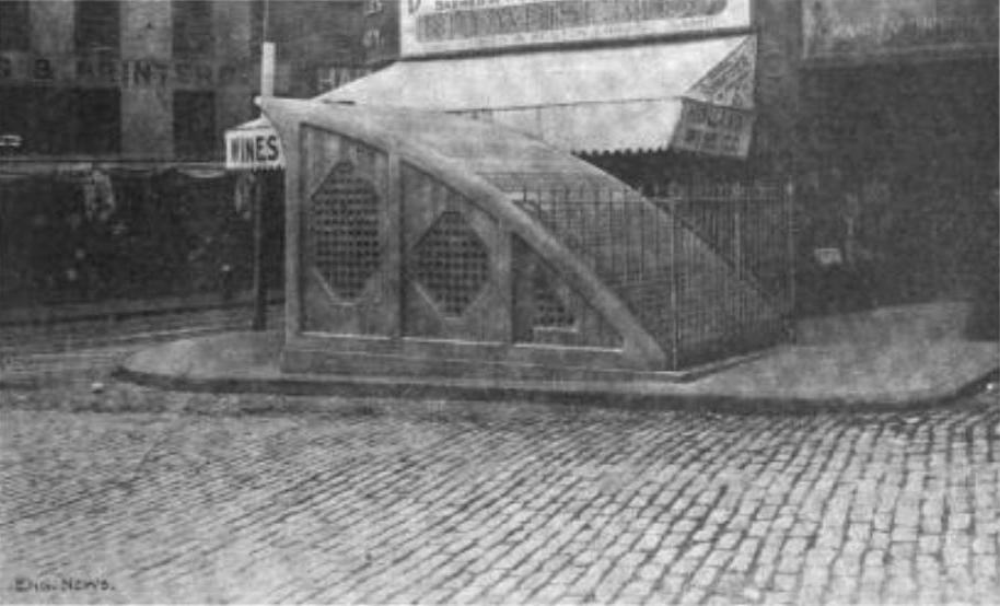 The reinforced concrete headhouse for State station at Adams Square shortly after its construction. The design was intended to reduce its visual impact on nearby buildings.